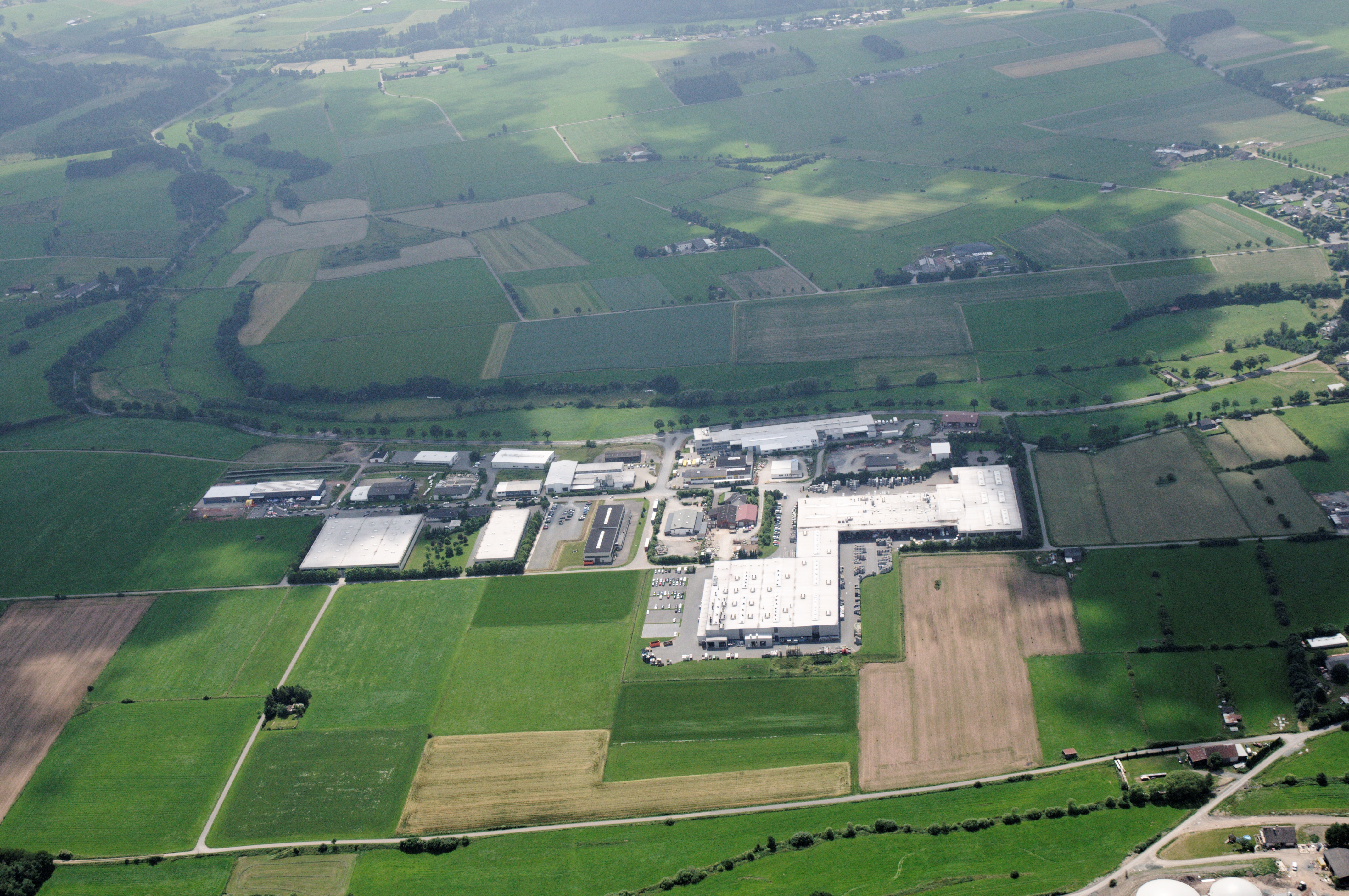 Fotoflug Sauerland-Ost, Medebach, Gewerbegebiet „Holtischer Weg“, Bach Medebach The making of this document was supported by the Community-Budget of Wikimedia Germany.